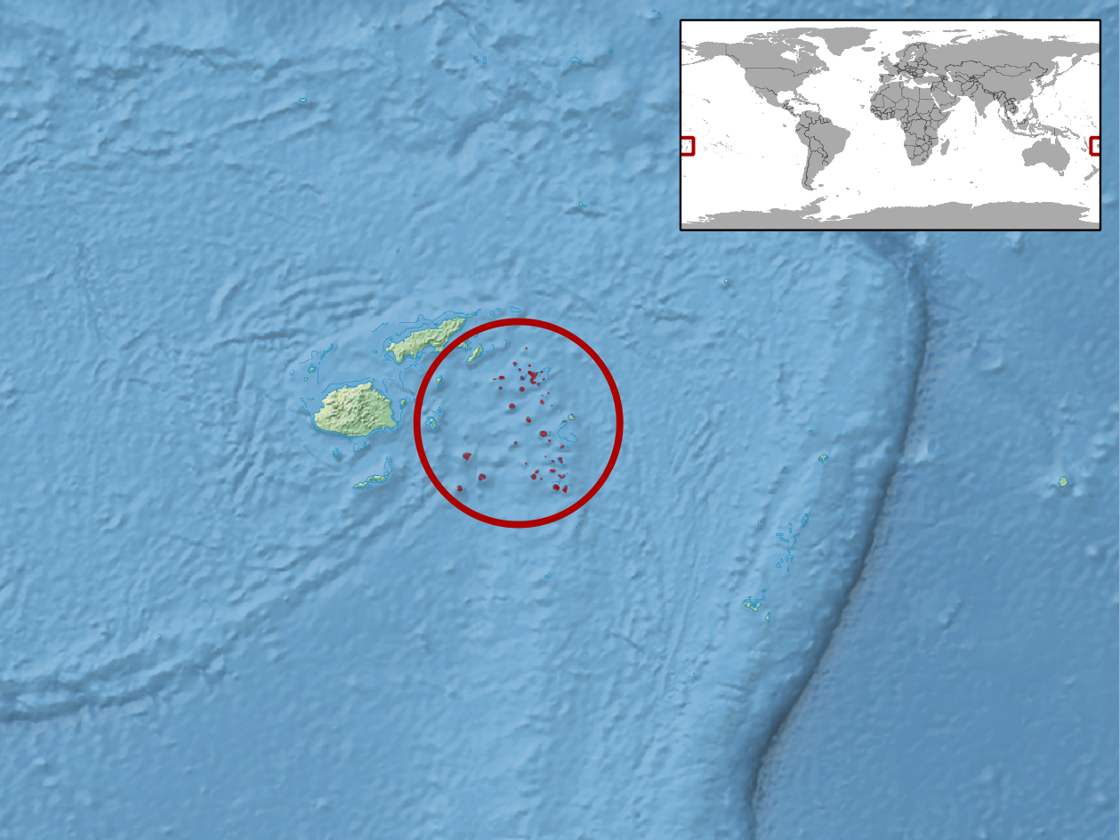 geographic distribution of Brachylophus fasciatus (Native: Fiji / Introduced: Tonga)